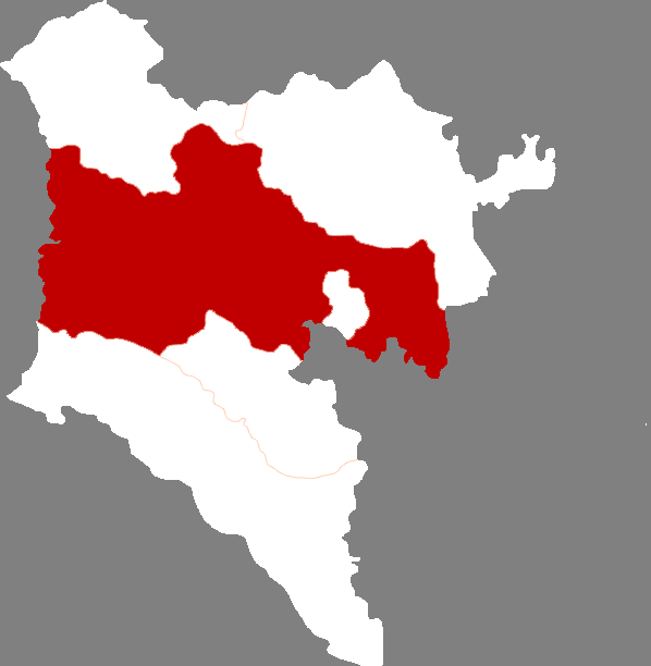 Locator map of Horqin Right Front Banner in Hinggan League, Inner Mongolia, China